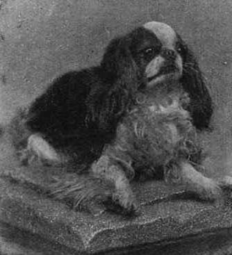 A Blenheim Spaniel (now incorporated into the King Charles Spaniel/English Charles Spaniel) photograph published in 1903. Published in London by L.U. Gill, and in New York by C. Scribner's Sons - both same year. The book does not list who the photographs were taken by or when.